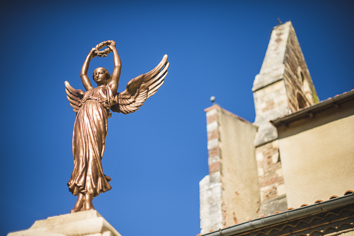 Statue of the war memorial in Mondavezan (war 1939-1945)